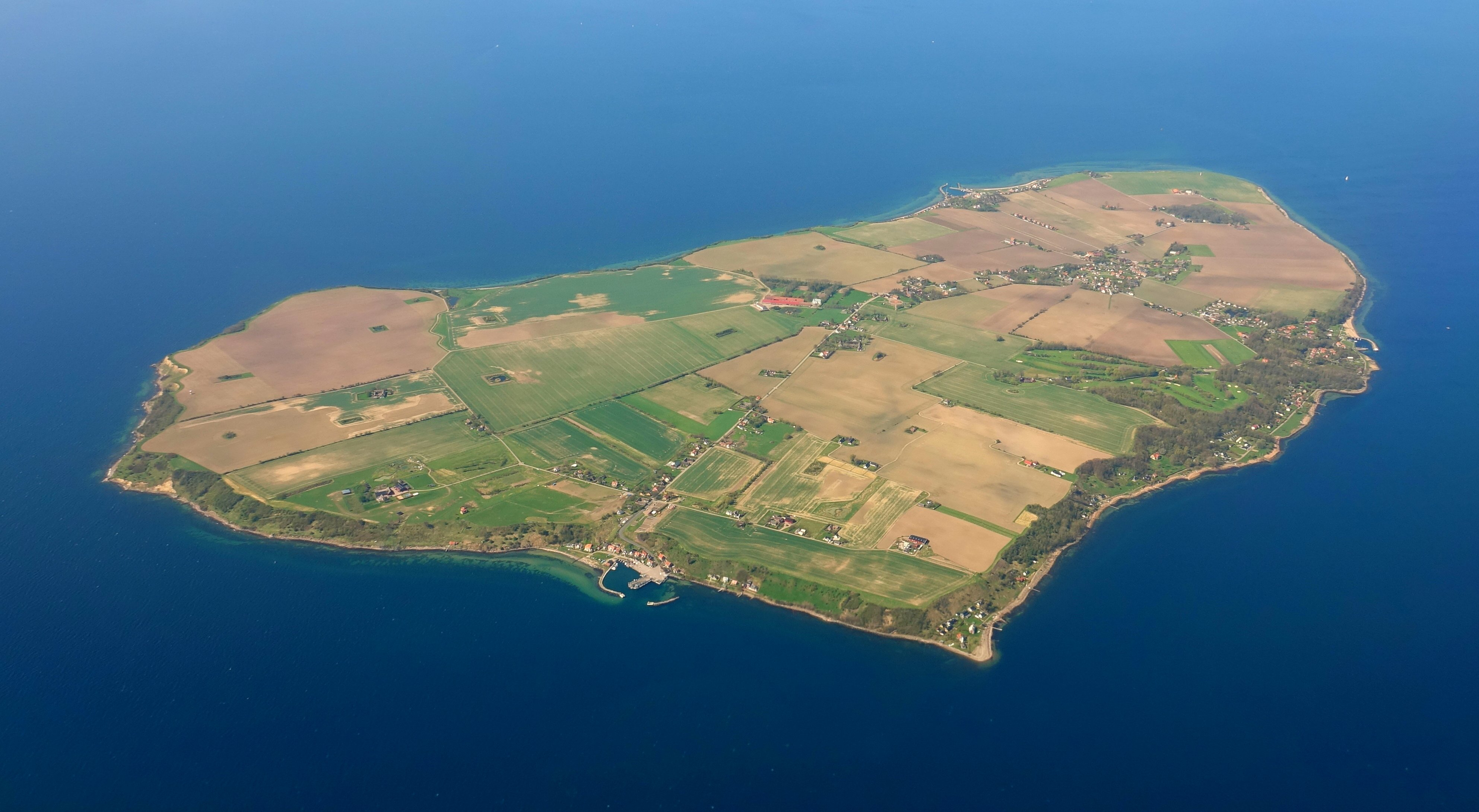 The Swedish island of Ven, photographed from the east from a commercial flight between Oslo, Norway and Copenhagen, Denmark.